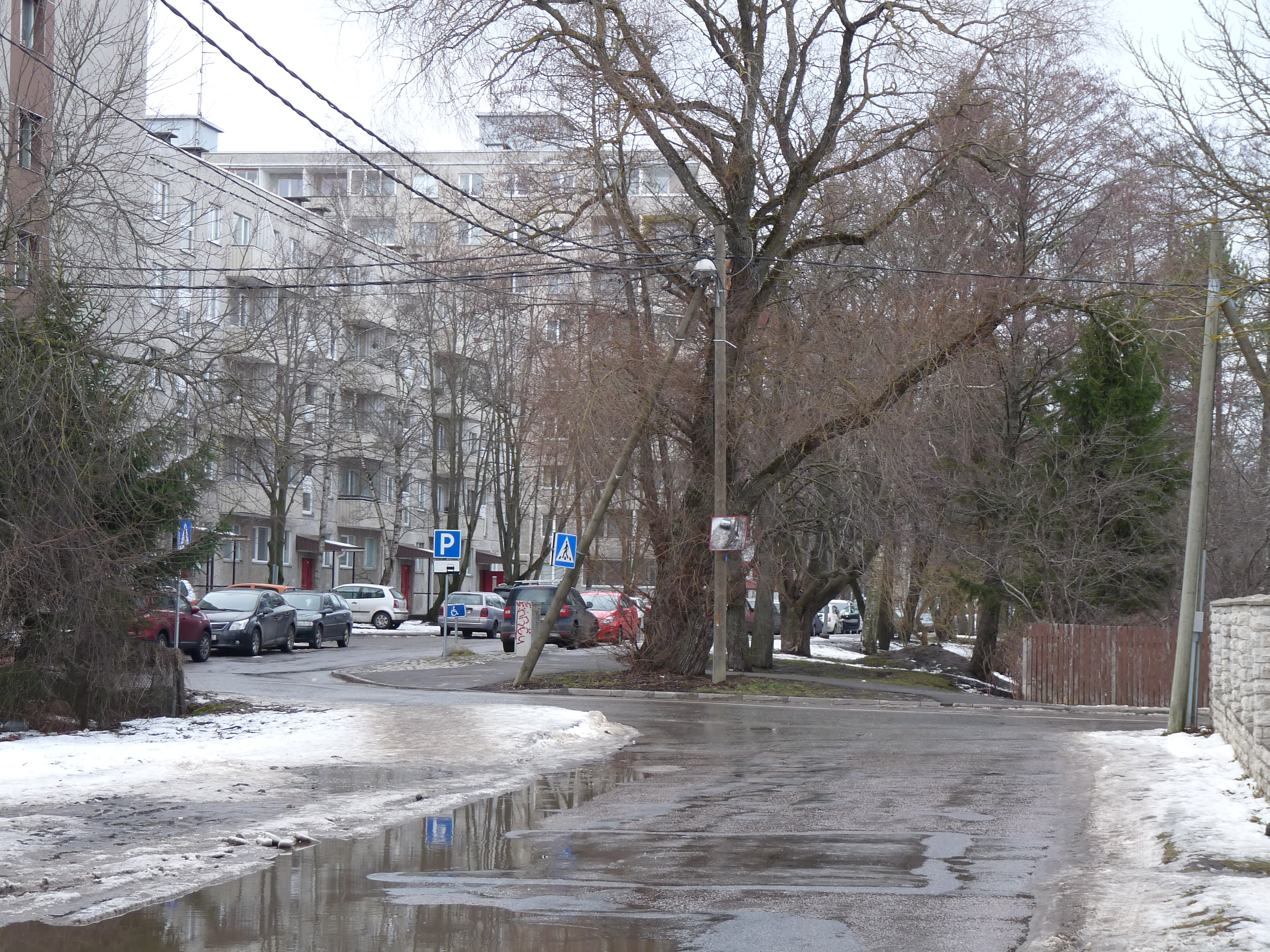 Intersection of Mooni and Tedre streets in Tallinn, Estonia